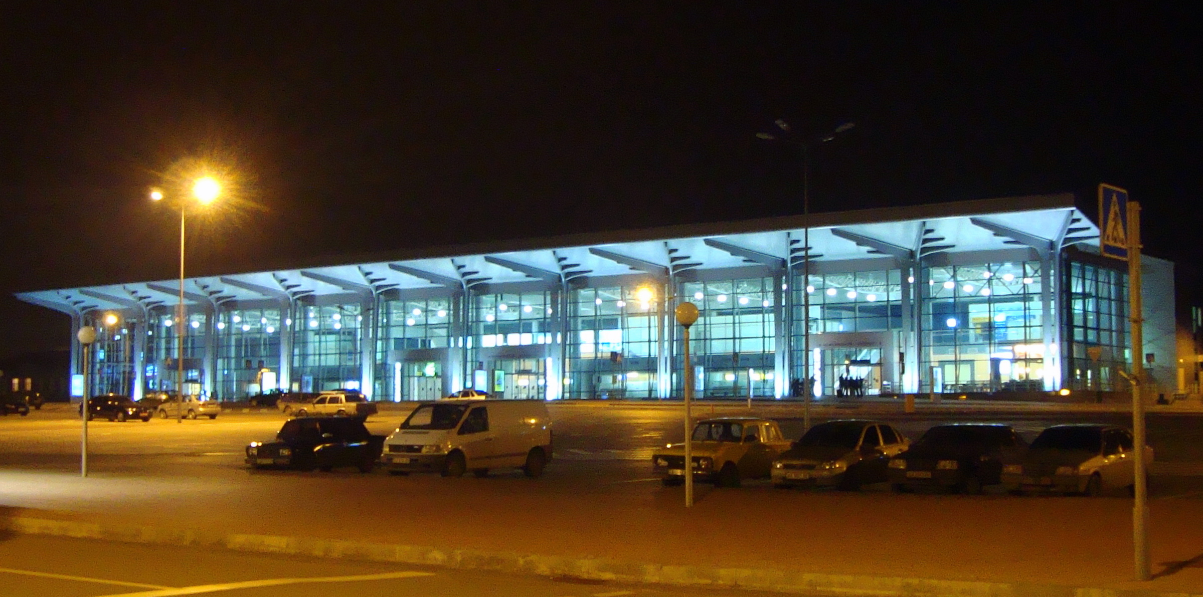 Terminal A of Kharkiv International Airport built in 2010, Kharkiv, Ukraine